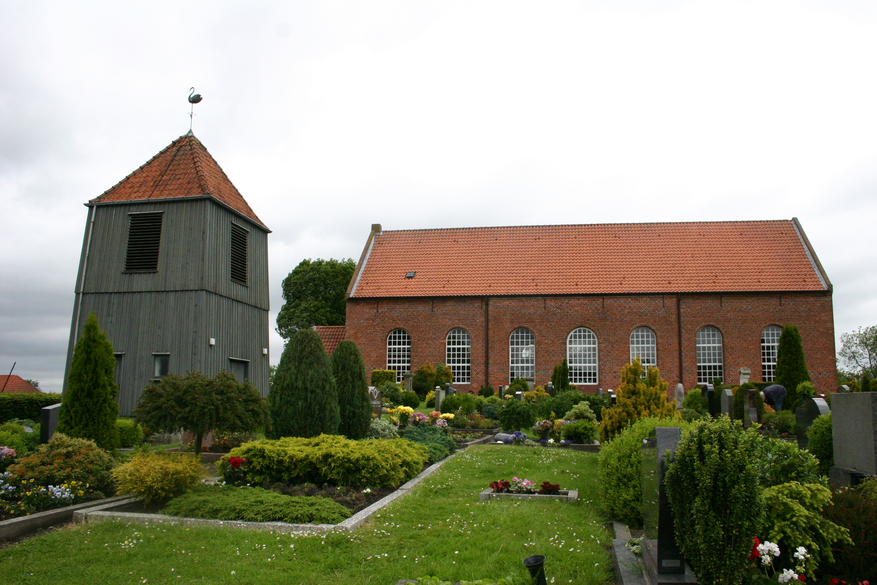 Historic church in Burhafe, district of Wittmund, East Frisia, Germany